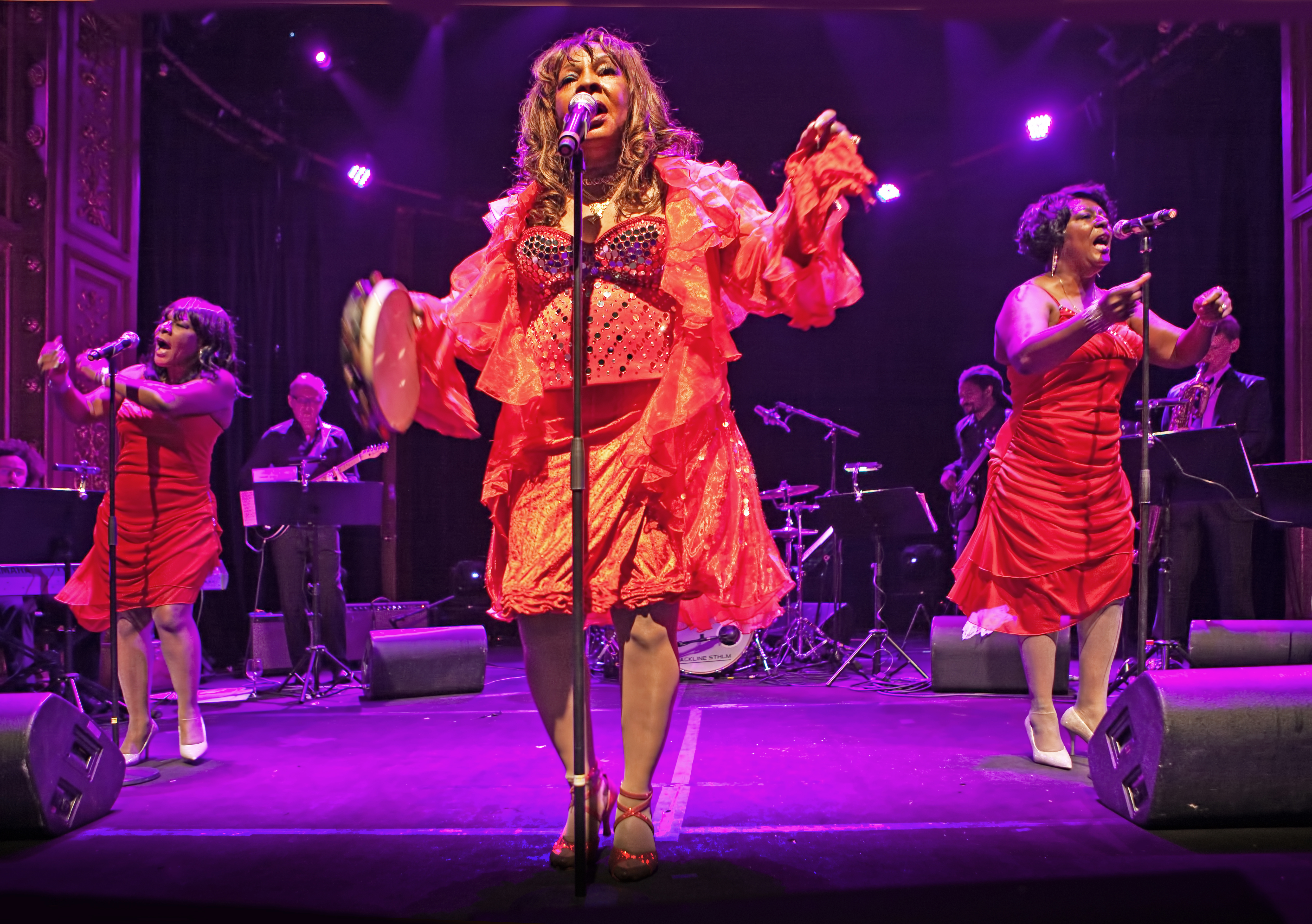 Martha and the Vandellas 2011 at Berns in Stockholm, Sweden